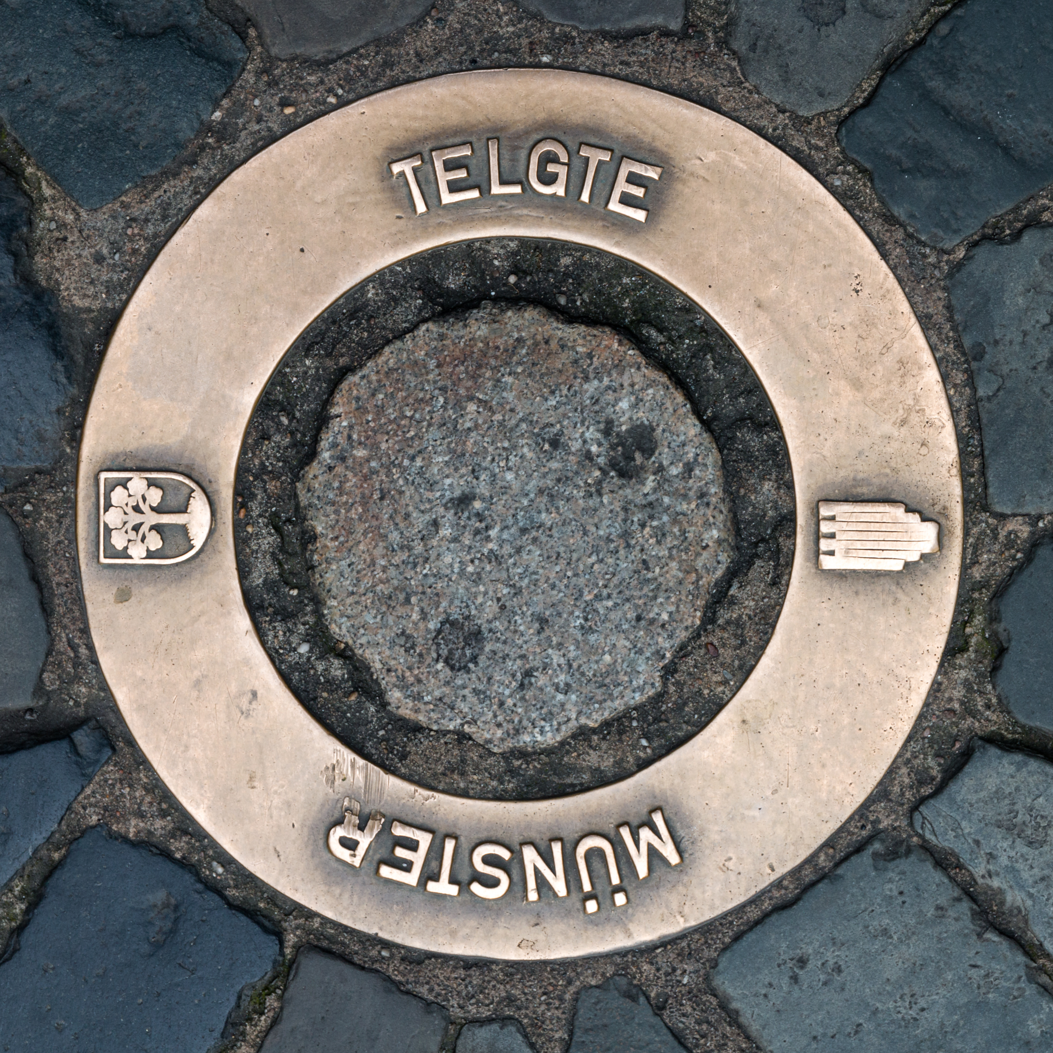 Hanse Stones (Adolph W. Knüppel, 1993) in the Salzstraße in Münster, North Rhine-Westphalia, Germany Sculpture TitleHanse-SteineArtistAdolph W. KnüppelDate1993